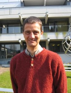 Reinhard Diestel, graph theorist